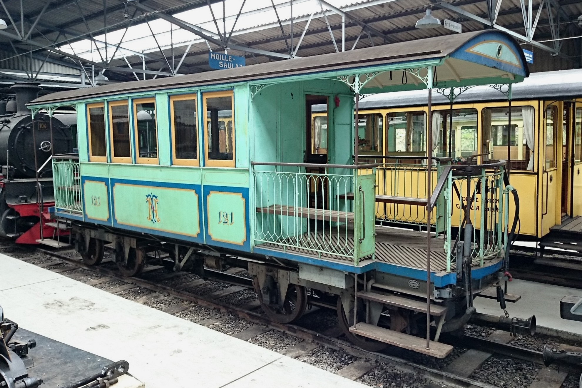 Tramway passenger car from Neuchâtel by Blonay-Chamby in Switzerland.